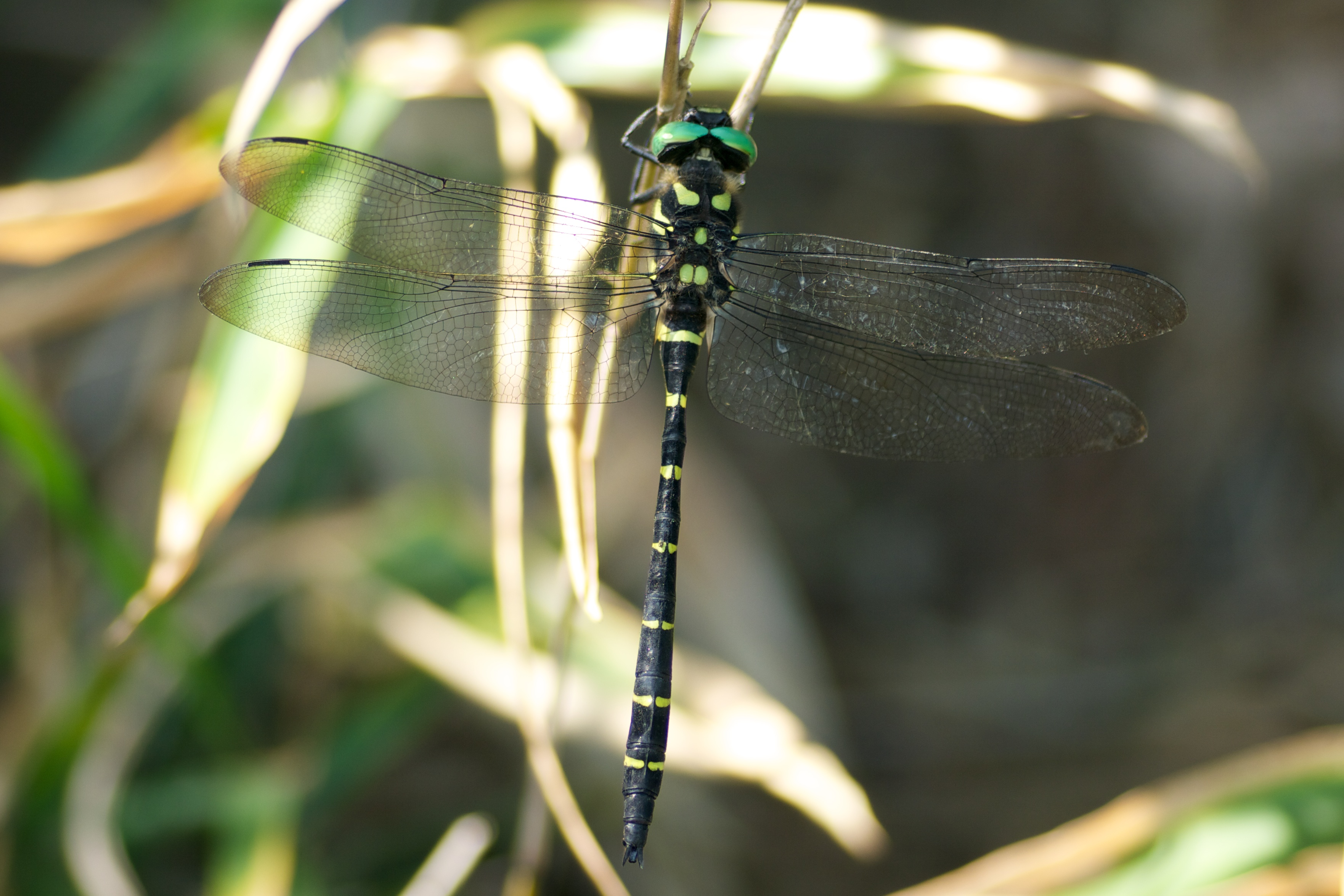 An Anotogaster sieboldii ("oniynama" in Japanese) photographed in the Nasu Highlands of Tochigi.